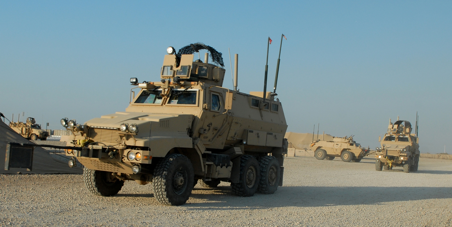 U.S. Soldiers assigned to Delta Company, 1st Battalion, 186th Infantry Regiment, 41st Infantry Brigade Combat Team, head out for a mission aboard Caiman mine-resistant, ambush-protected vehicles and an M1117 Guardian armored security vehicle, background, at Camp Adder, Iraq, Oct. 31, 2009.